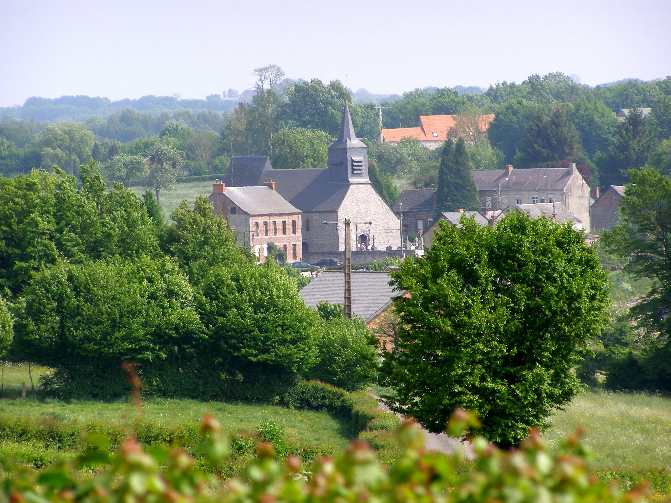 The village of Lez Fontaine.